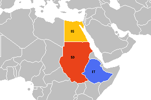 Locator map for Egypt, Sudan and Ethiopia.